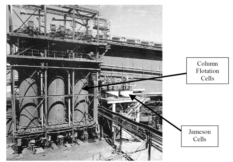 This photograph shows two Jameson Cells next to three flotation columns at Glencore Xstrata's Mount Isa lead-zinc concentrator.